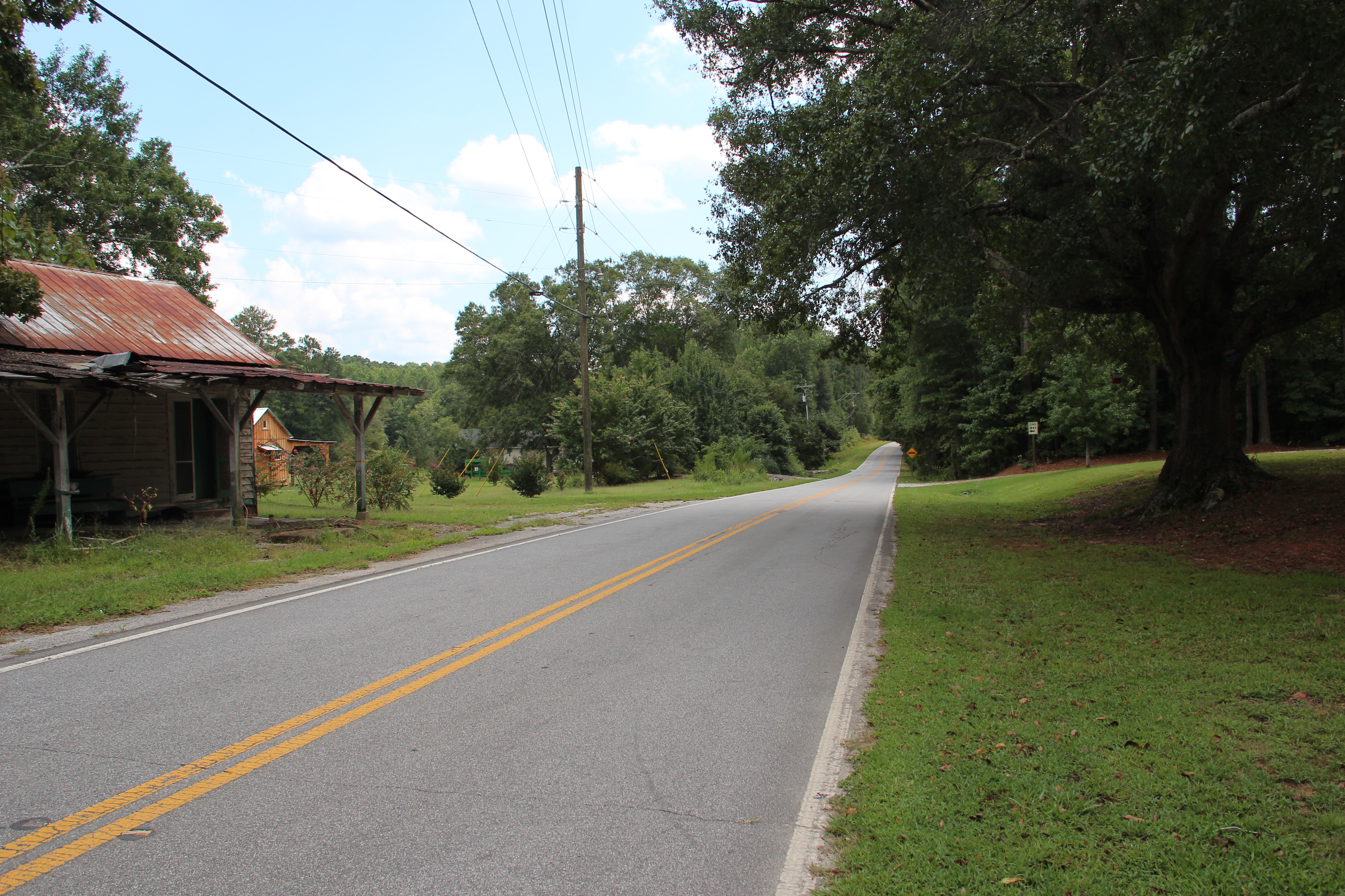 Rico Road in Chattahoochee Hills, Georgia